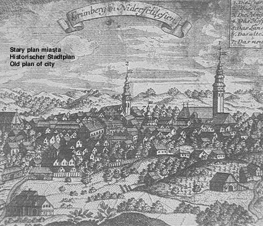 Zielona Góra, first half of XVIII century